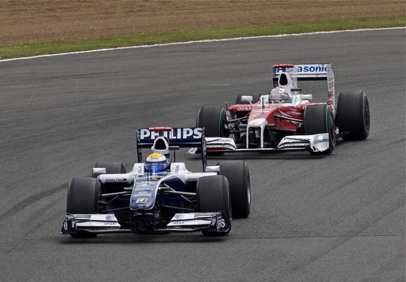 Nico Rosberg (front) and Jarno Trulli at the 2009 British Grand Prix, Silverstone, UK.